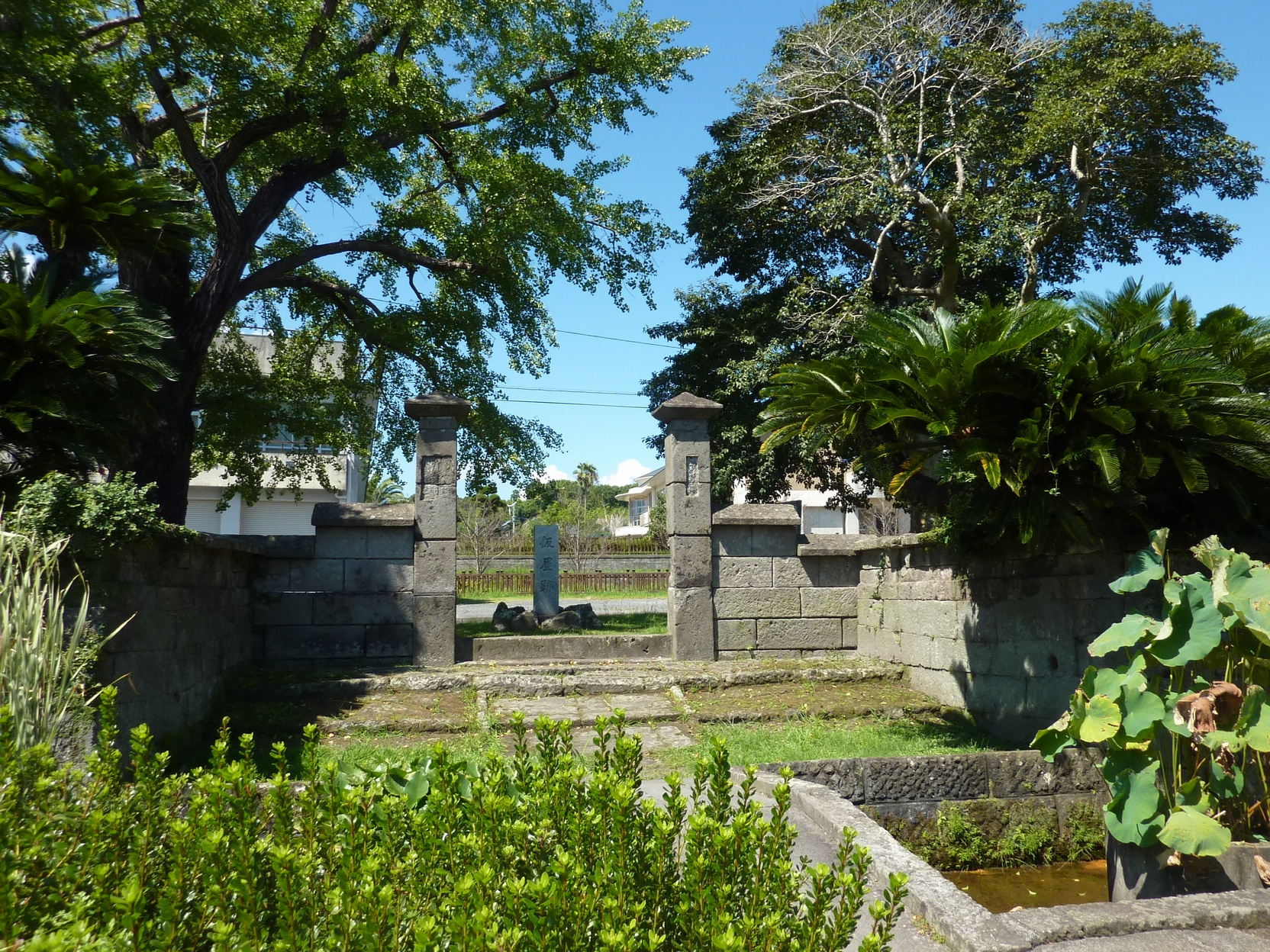 Ruin of Kushira Tojo Office (Present part of Kanoya City, Kagoshima Prefecture, Japan)